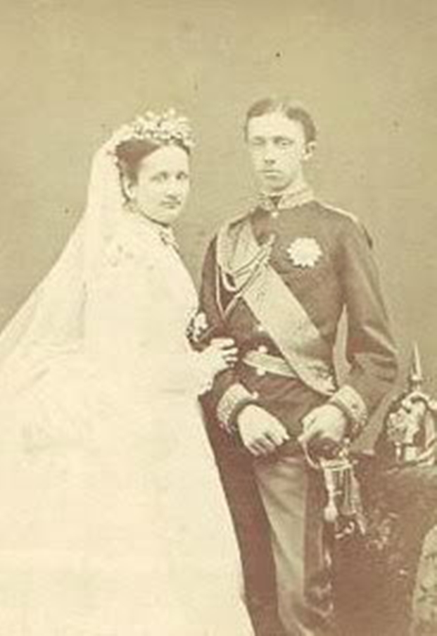 Roberto I of Parma and Maria Pia of Two Sicilie wedding.